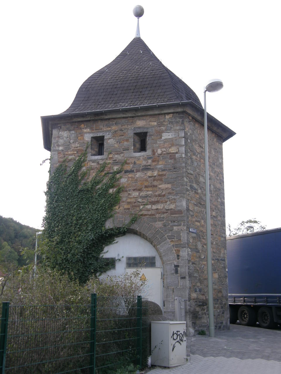 transformer substation Jägerbrücke, Arnsberg